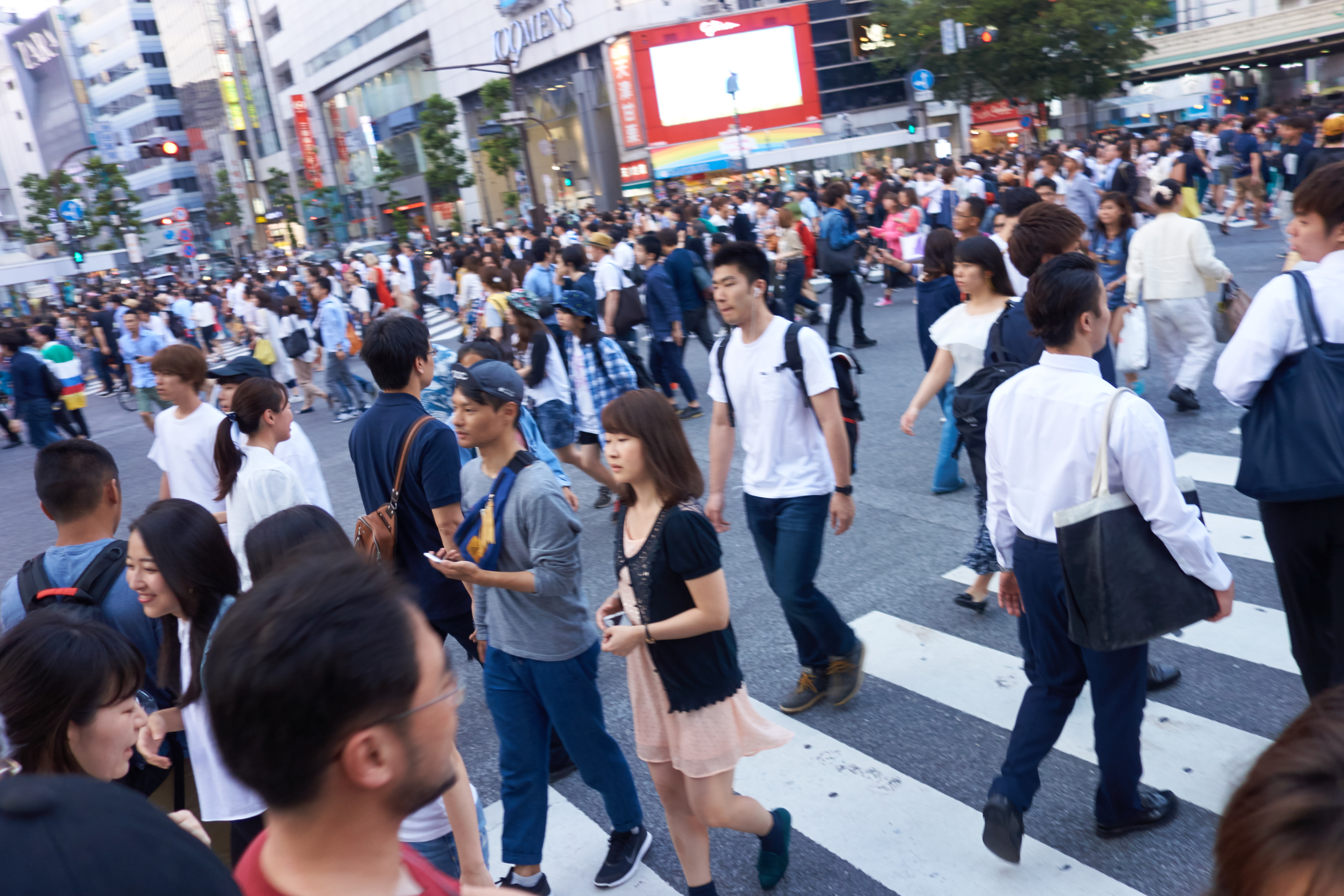 Shibuya Crossing, May 2017